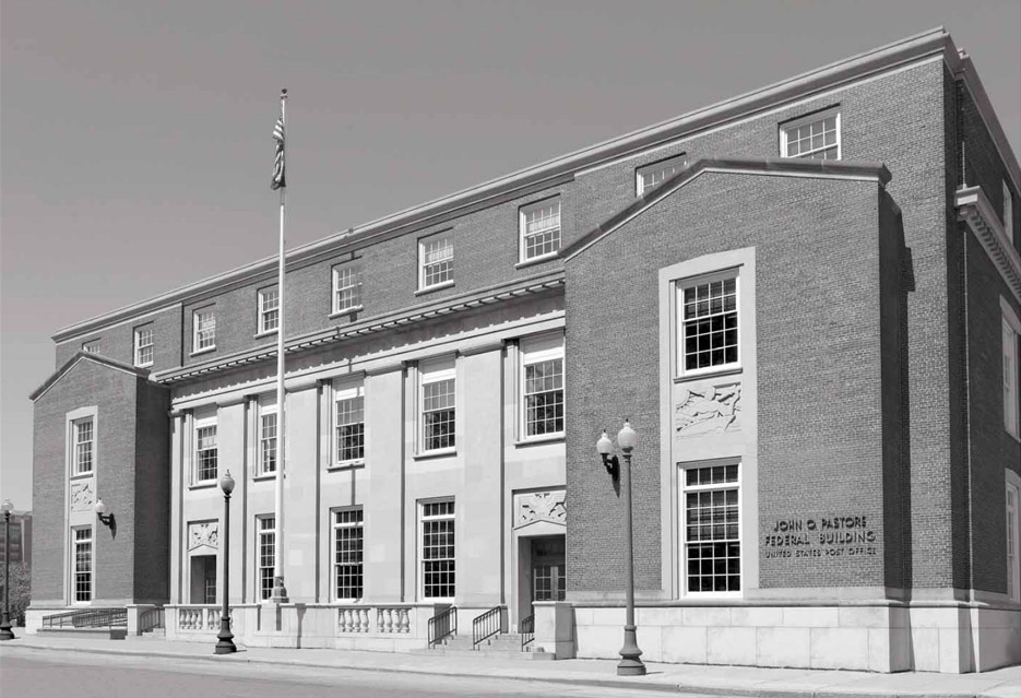 Front view of the John O. Pastore Federal Building